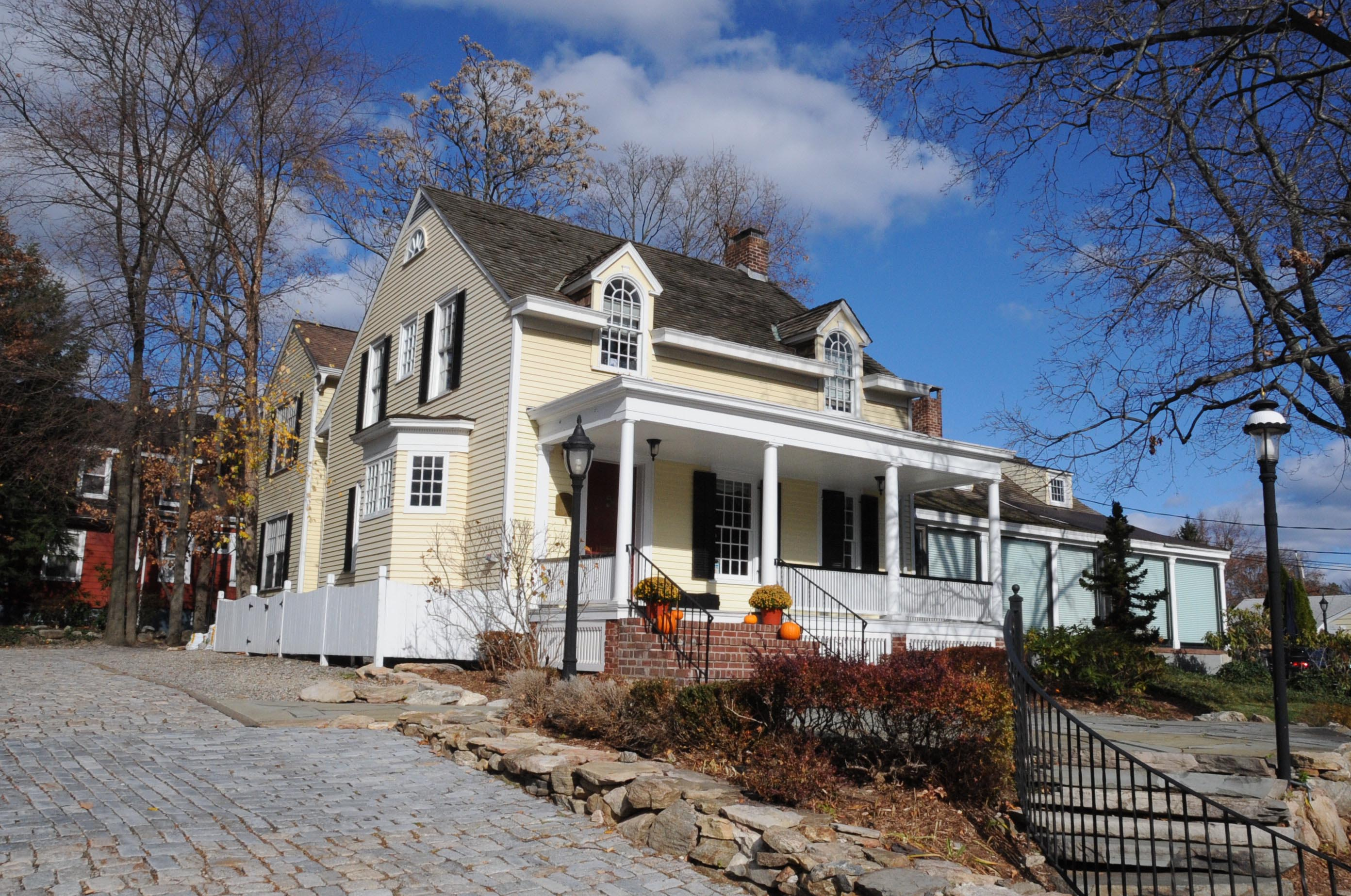 BUILT CIRCA 1825 BY RICHARD COOPER, A CHAIRMAKER, ON LAND OWNED BY THE FAMILY SINCE 1716